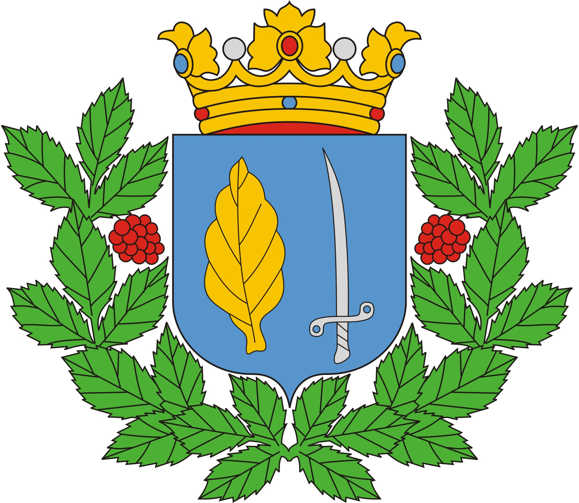 Coat of arms of Fülöp, Hungary